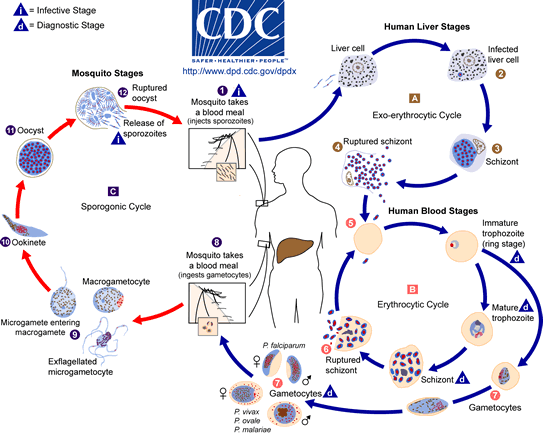 A chart showing the lifecycle of the malaria parasite.